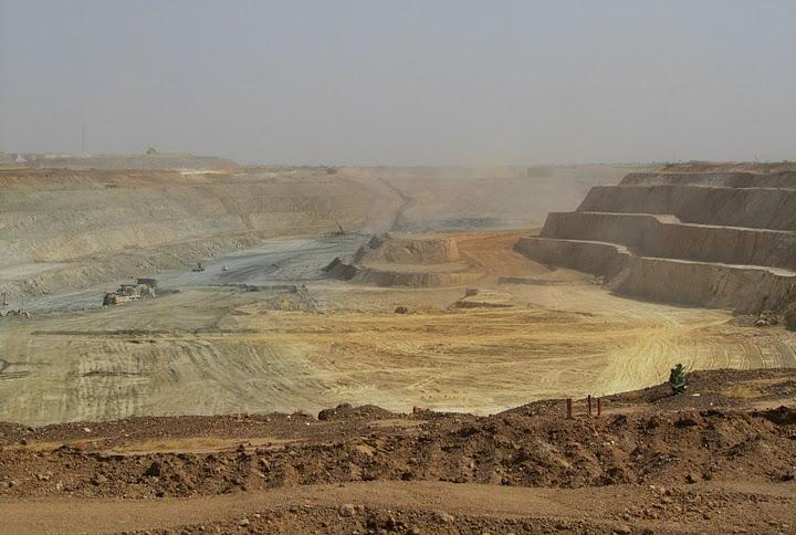 Essakane Mine pit in Burkina Faso.